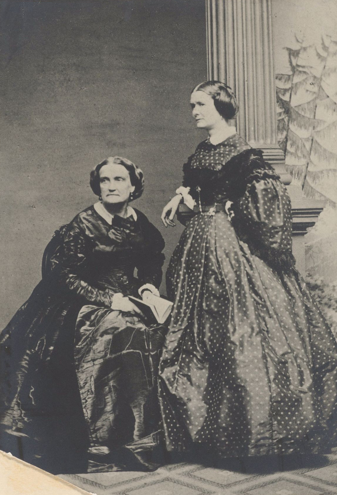 Photographic image of actress Charlotte Cushman (1816–1876), seated, with sculptor Emma Stebbins (1815–1882). Theatrical Cabinet Photographs of Women (TCS 2). Harvard Theatre Collection, Houghton Library, Harvard University.